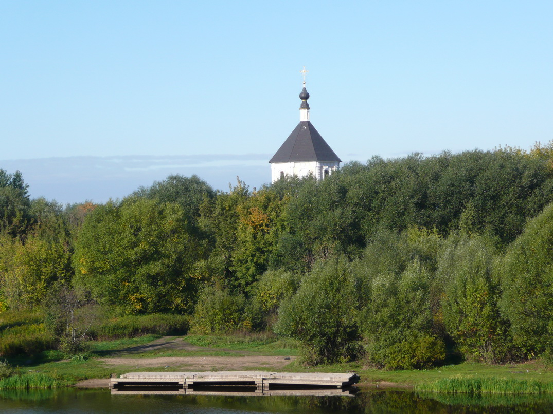 View towards Pokrovskaya Church across the Tmaka River